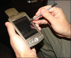 A handheld computer with GPS and GIS software is often used for scientific field work.